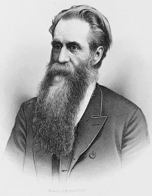 Turner M. Marquett (Nebraska Congressman)